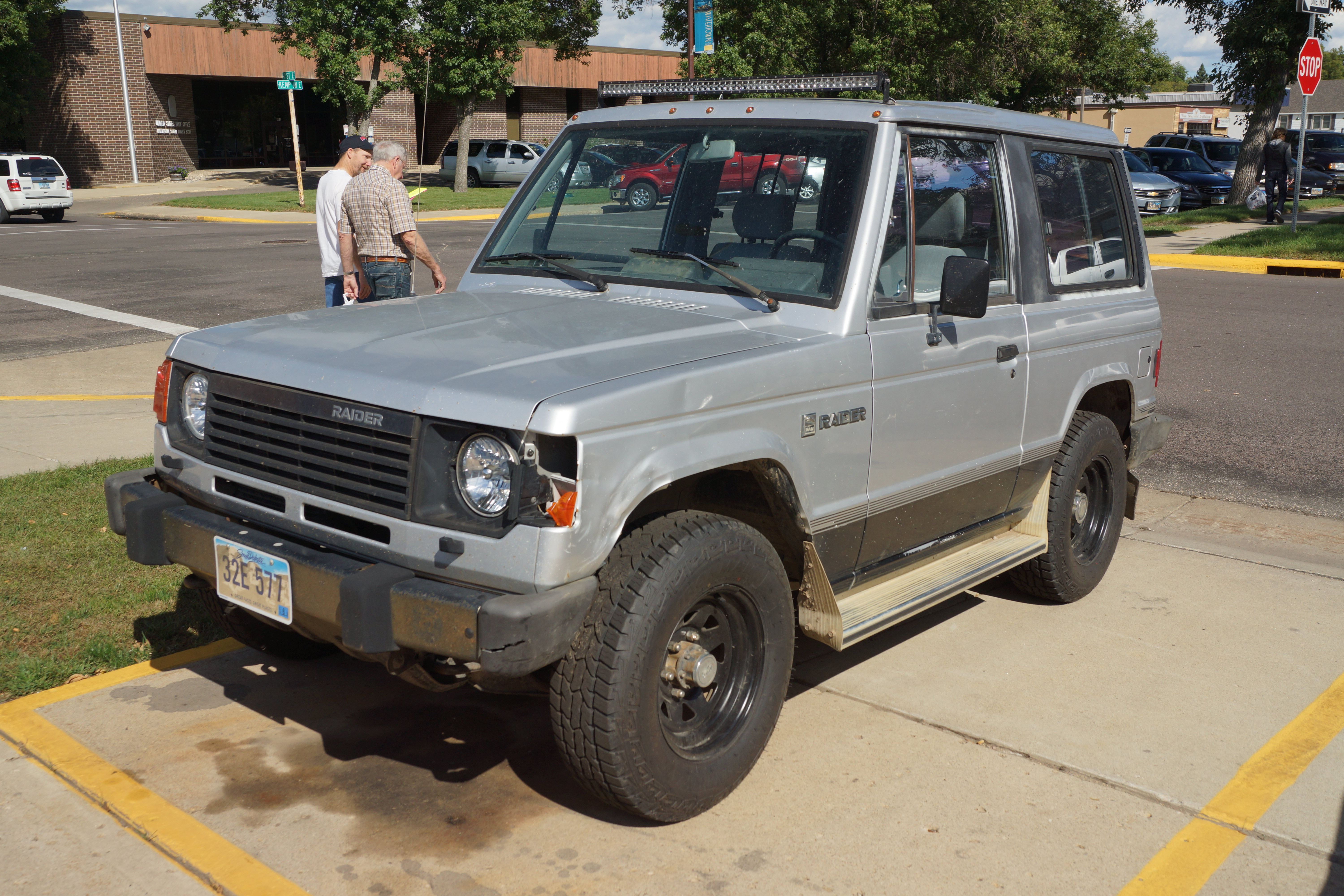 Click here for more car pictures at my Flickr site.